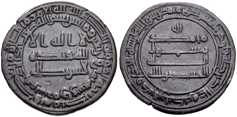 ISLAMIC, 'Abbasid Caliphate. al-Muntasir. AH 247-248 / AD 861-862. AR Dirhem (19mm, 2.88 g, 7h). Surra man ra’a (Samarra) mint. Dated AH 248 (AD 862). Album 232. Good VF, deeply toned. Rare. The inscriptions on the dirham, following the standard Abbasid format, are: Obverse center: لا إله إلا \ الله وحده \ لا شريك له "There is no god but God alone; He has no partner." Obverse inner margin: بسم الله ضرب هذا الدرهم بسر من رأى سنة ثمان وأربعين ومائتين "In the name of God, this dirham was struck in Surra Man Ra'a the year two hundred and forty-eight (861-862 AD)." Obverse outer margin: لله الأمر من قبل ومن بعد ويومئذ يفرح المؤمنون بنصر الله "To God belongs the command [of all things] before and after. And that day the believers will rejoice in the help of God (Qur'an 30:4-5)." Reverse center: لله \ محمد \ رسول \ الله \ المنتصر بالله "To God. Muhammad is the Messenger of God. [The caliph] al-Muntasir bi-llah." Reverse margin: محمد رسول الله أرسله بالهدى ودين الحق ليظهره على الدين كله ولو كره المشركون "Muhammad is the Messenger of God. He sent him with guidance and the true religion to proclaim it over all other religions, even if the polytheists dislike it (Qur'an 9:33)." For more details on the layout of Abbasid coinage see: Bacharach, Jere L. Islamic History through Coins: An Analysis and Catalogue of Tenth-Century Ikhshidid Coinage. Cairo: The American University in Cairo Press, 2006. ISBN 977-424-930-5. pp 15-19